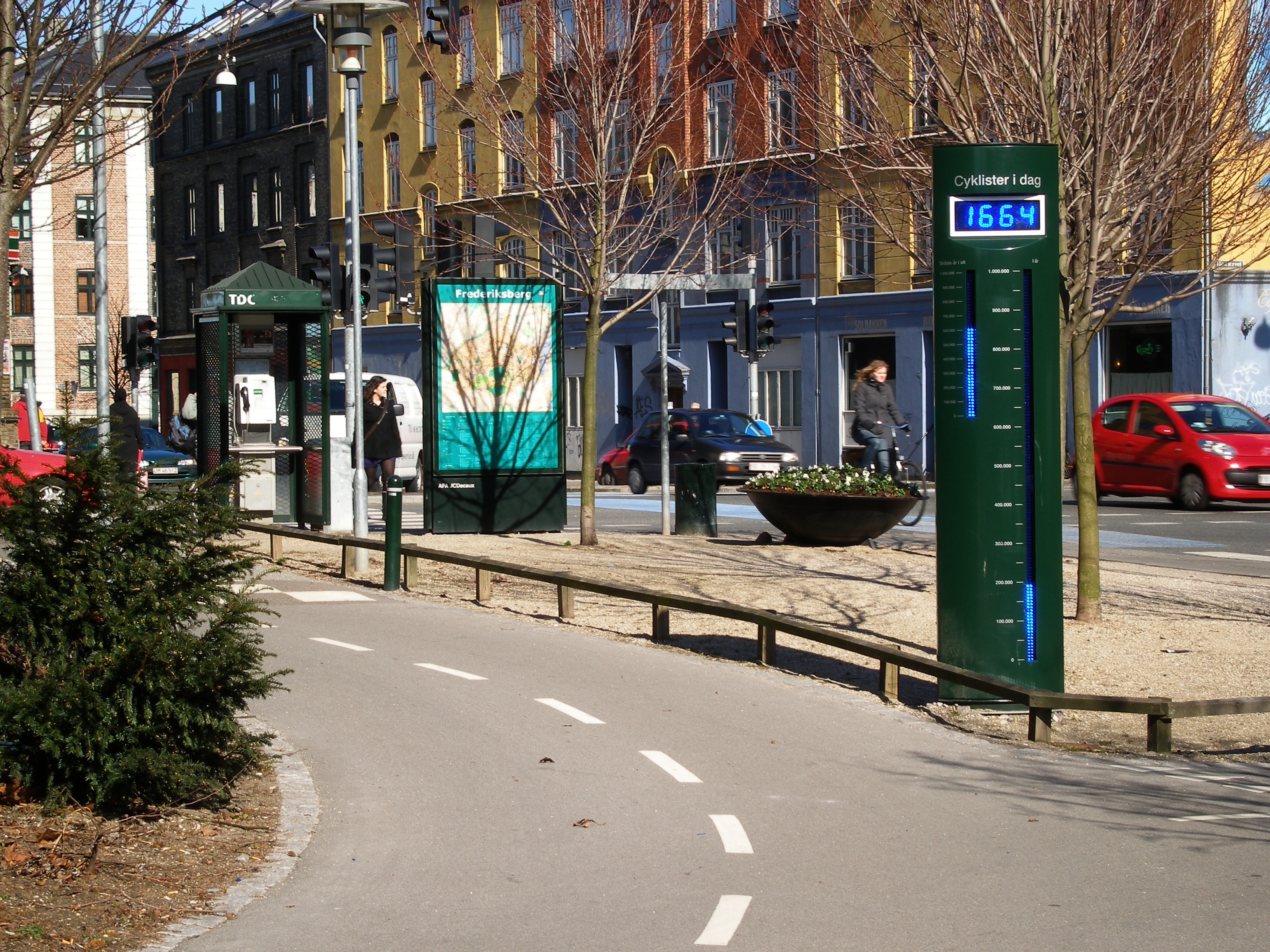 Cycling route "den grønne sti", Frederiksberg with a device counting cyclists